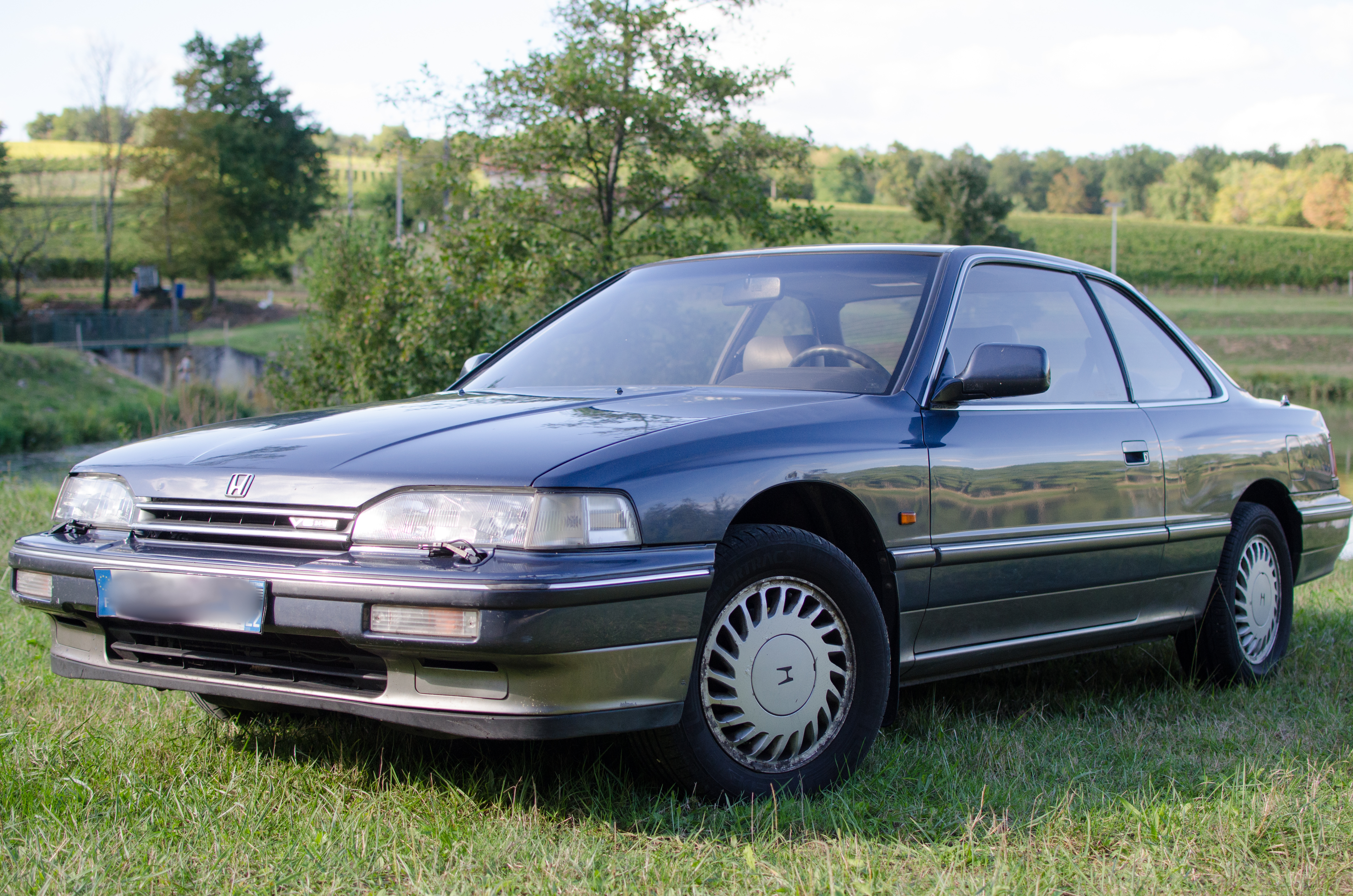 Blue Honda Legend coupé 1990 wide shot